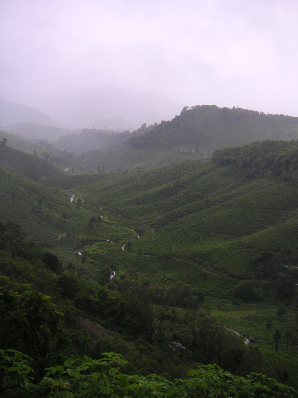 Photo: Soman